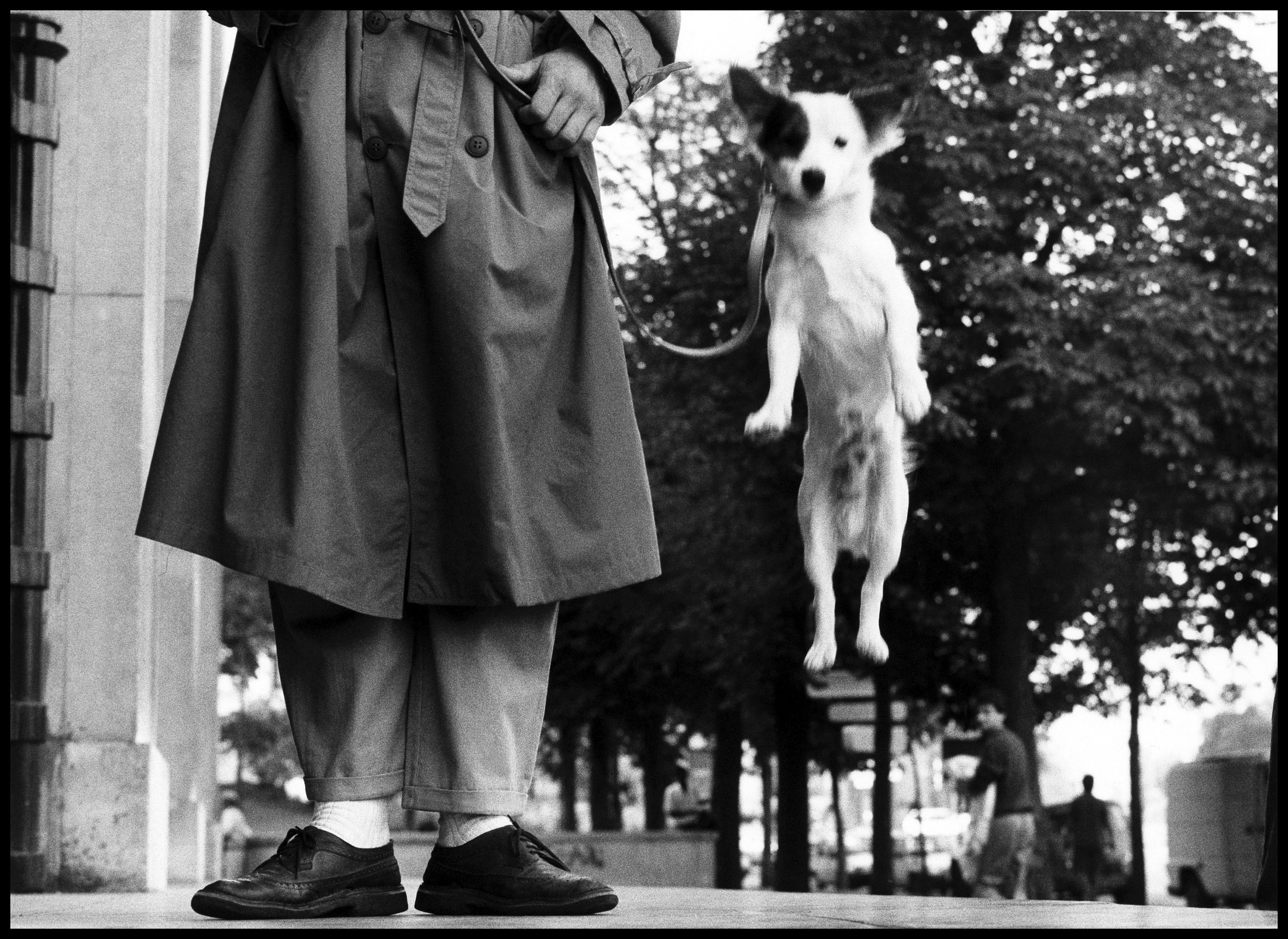 FRANCE. Paris. 1989. Contact email: New York : Paris : London : Tokyo : Contact phones: New York : +1 212 929 6000 Paris: + 33 1 53 42 50 00 London: + 44 20 7490 1771 Tokyo: + 81 3 3219 0771 Image URL